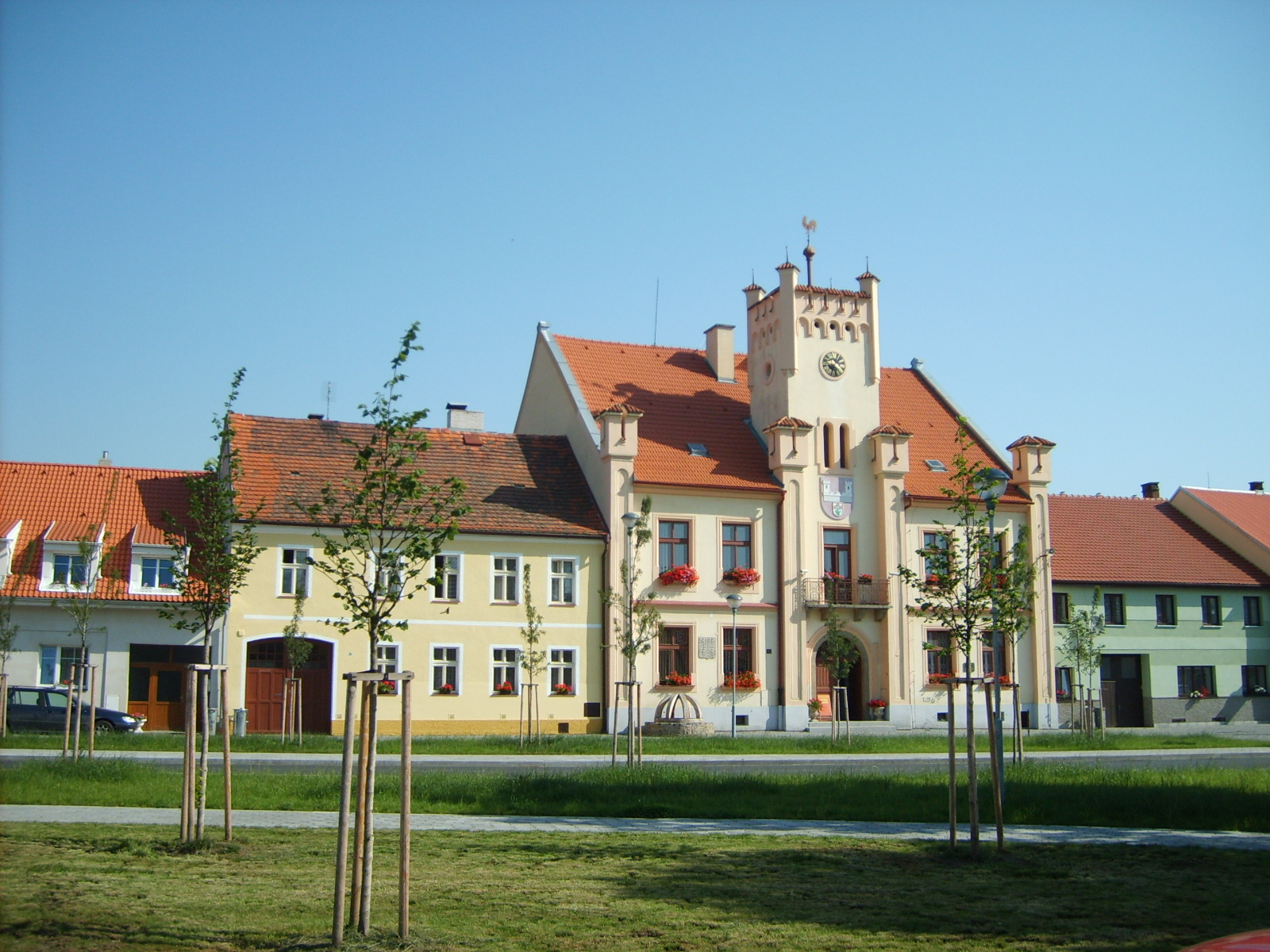 City hall in Švihov